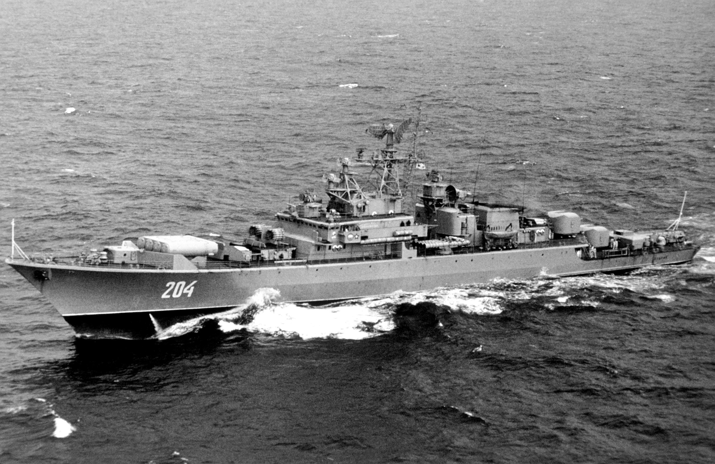 An aerial port bow view of a Soviet Krivak class missile frigate underway.